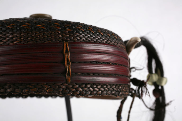 A "bachelor's hat" (falaka) in the permanent collection of The Children’s Museum of Indianapolis.